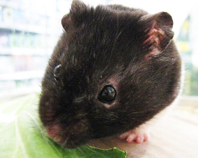 Derivative work. Original description: "Where i bought Lua, there were a adult panda syrian hamster. He was nice!"